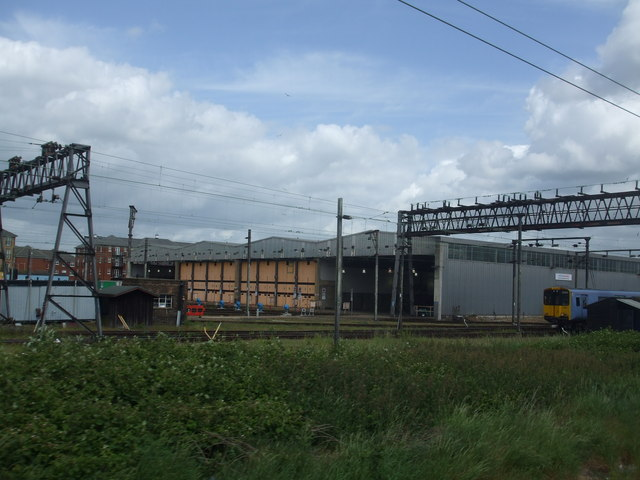 Ilford train maintenance depot Several sheds from the early days of electrification built to maintain the new electric trains.